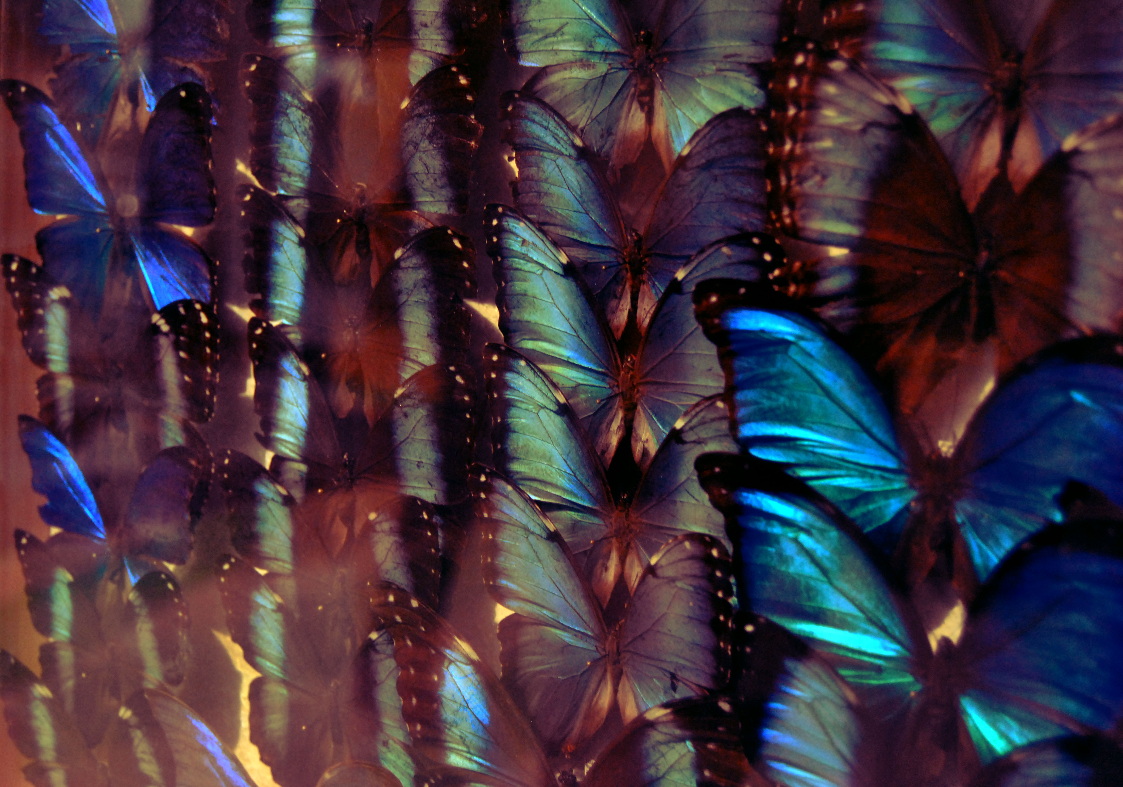 Insects exposition at Tallinn University of Technology